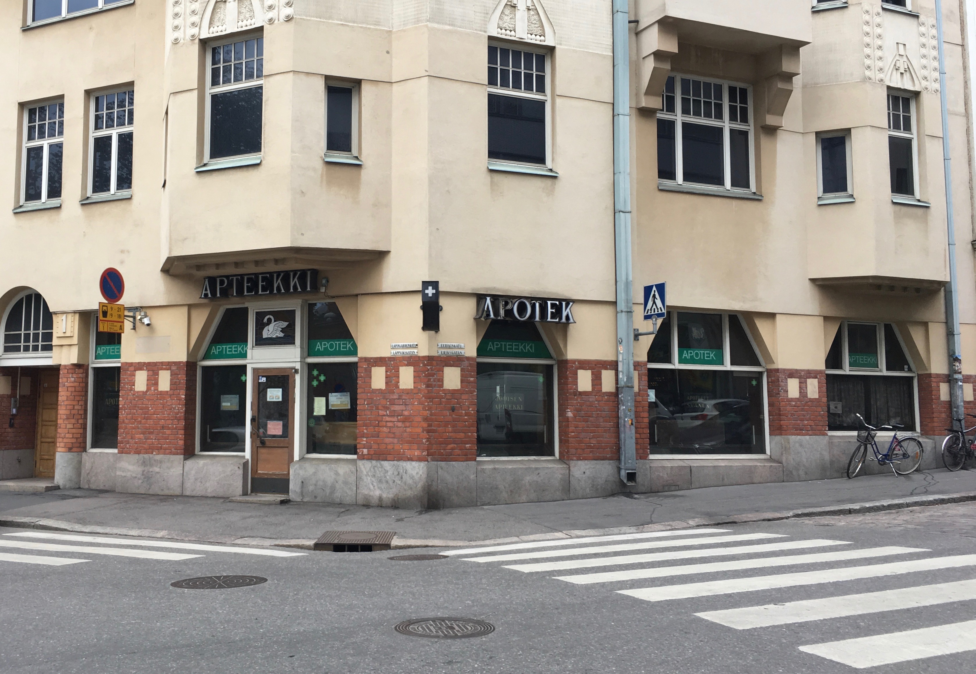 Former Joutsen apteekki pharmacy on the corner of Eerikinkatu and Lapinlahdenkatu at Kamppi, Helsinki, Finland.